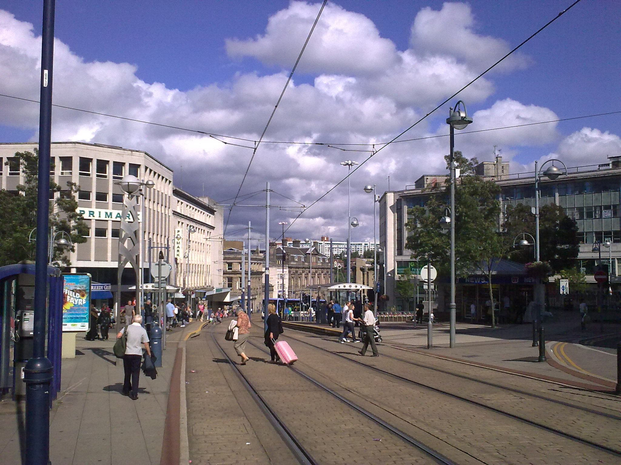 Castle Square, Sheffield, England